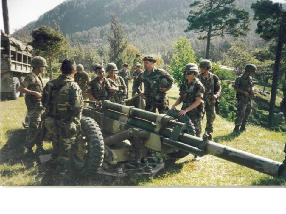 Members of Battery B, 5th Battalion, 206th Field Artillery Train with members of a Honduran Army artillery unit at Zambrano, Honduras.